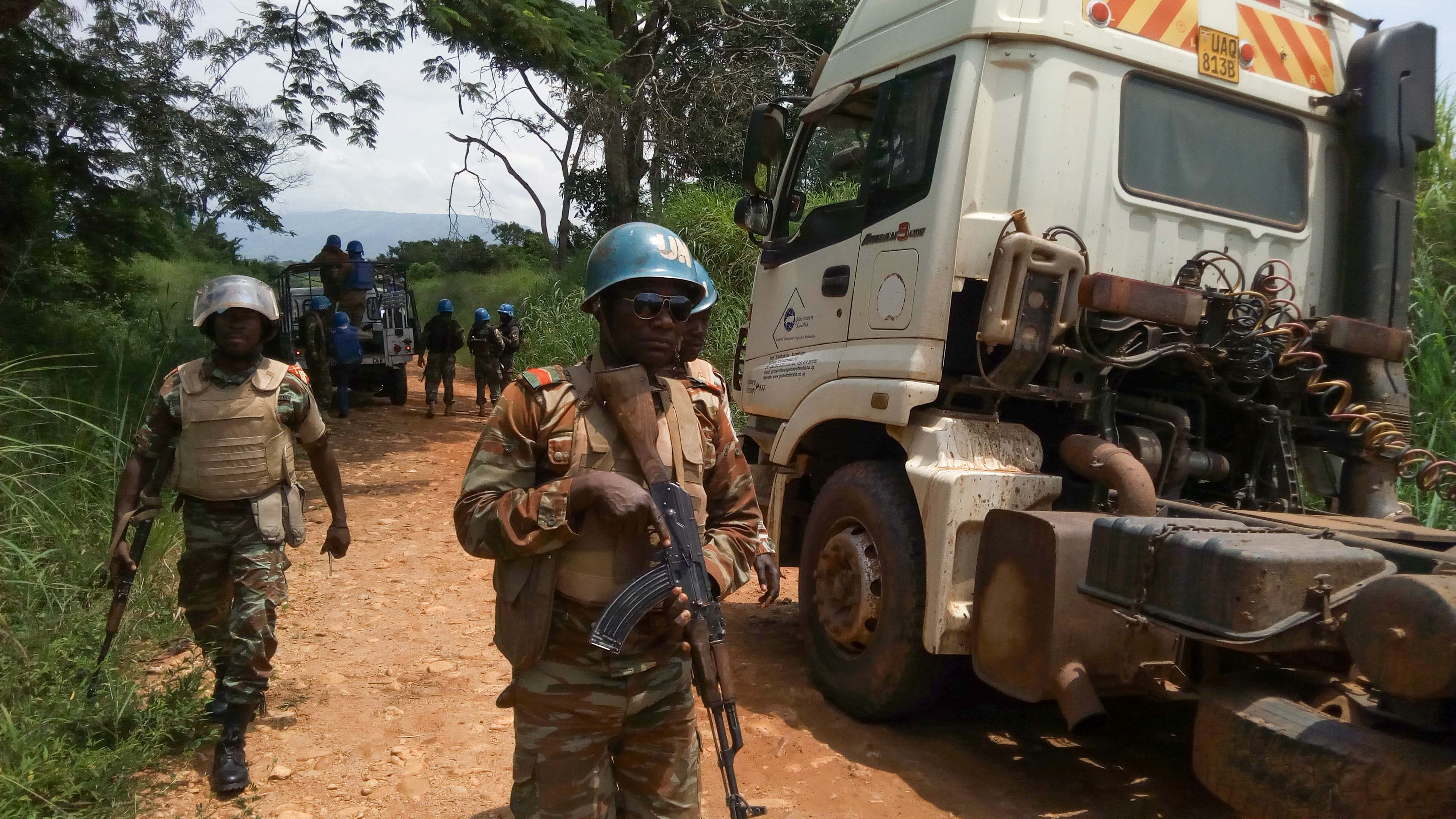 Province of Tanganyika, DR Congo. From 4 to 11 February 2018, MONUSCO troops took part in an operation in Bendera territory aimed at neutralizing any negative presence and ensuring freedom of movement along the Lulimba -Bendera stretch of the national road number 5 (RN5). Several areas were targeted including the localities of Lukolo and Kalonda 2, the site of the ambush against the UN convoy on January 27, 2018 and which cost the life to a Pakistani blue helmet. Photo: MONUSCO/Force